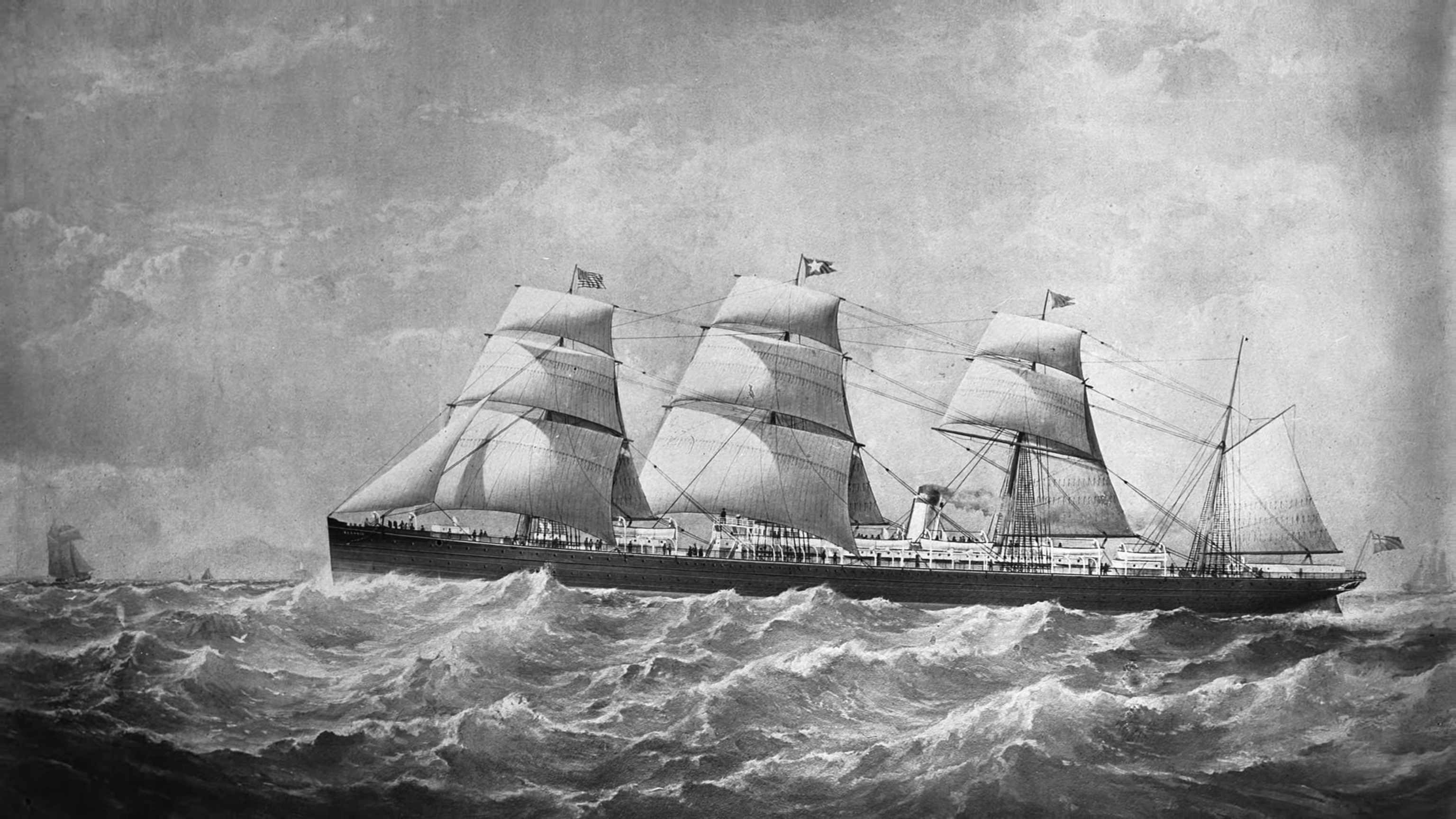 The Steam-ship "Atlantic," Wrecked on Mars Head on the Morning of April 1, 1873, a wood engraving published in Harper's Weekly, April 1873.